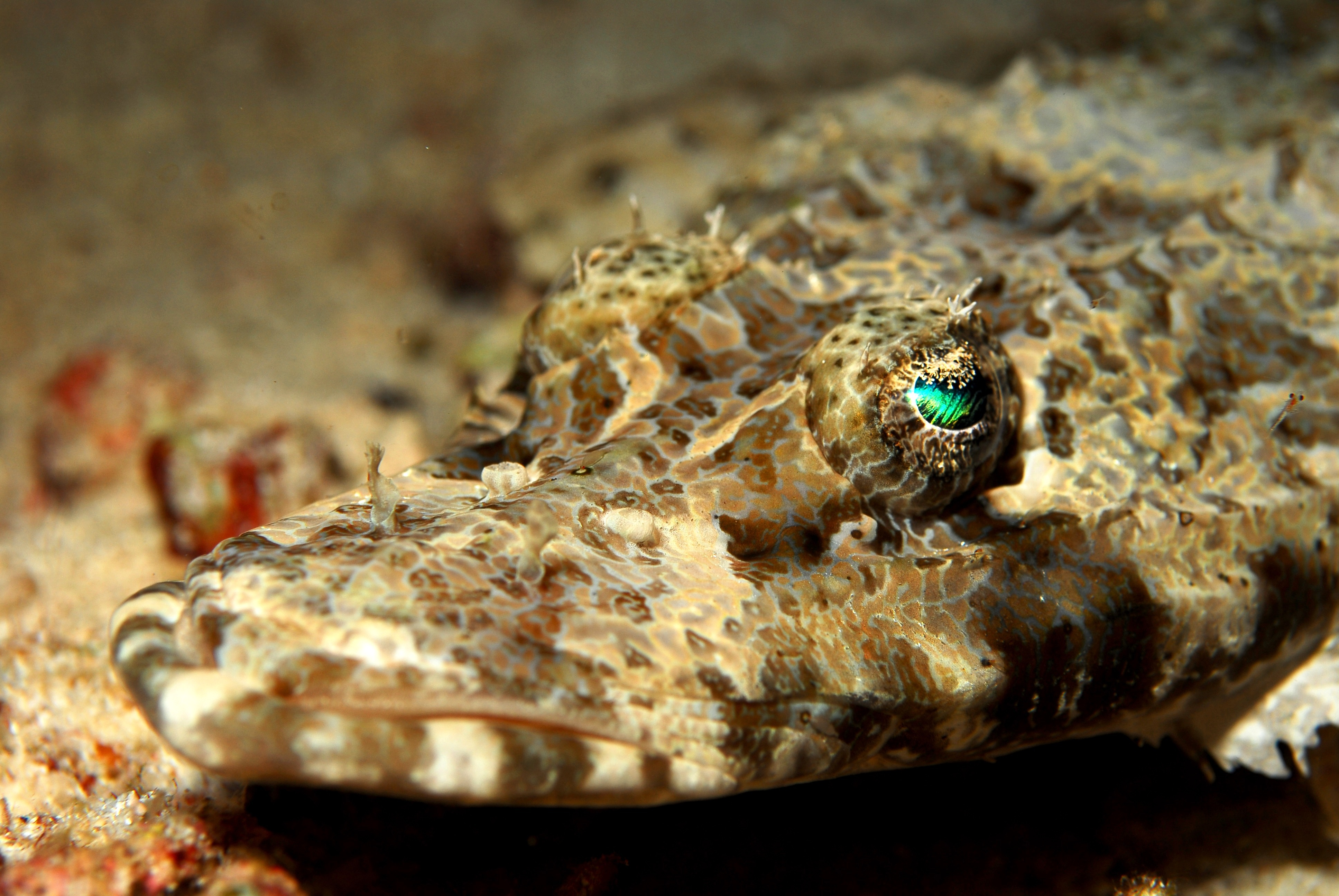 'Corcodile Fish' On Black